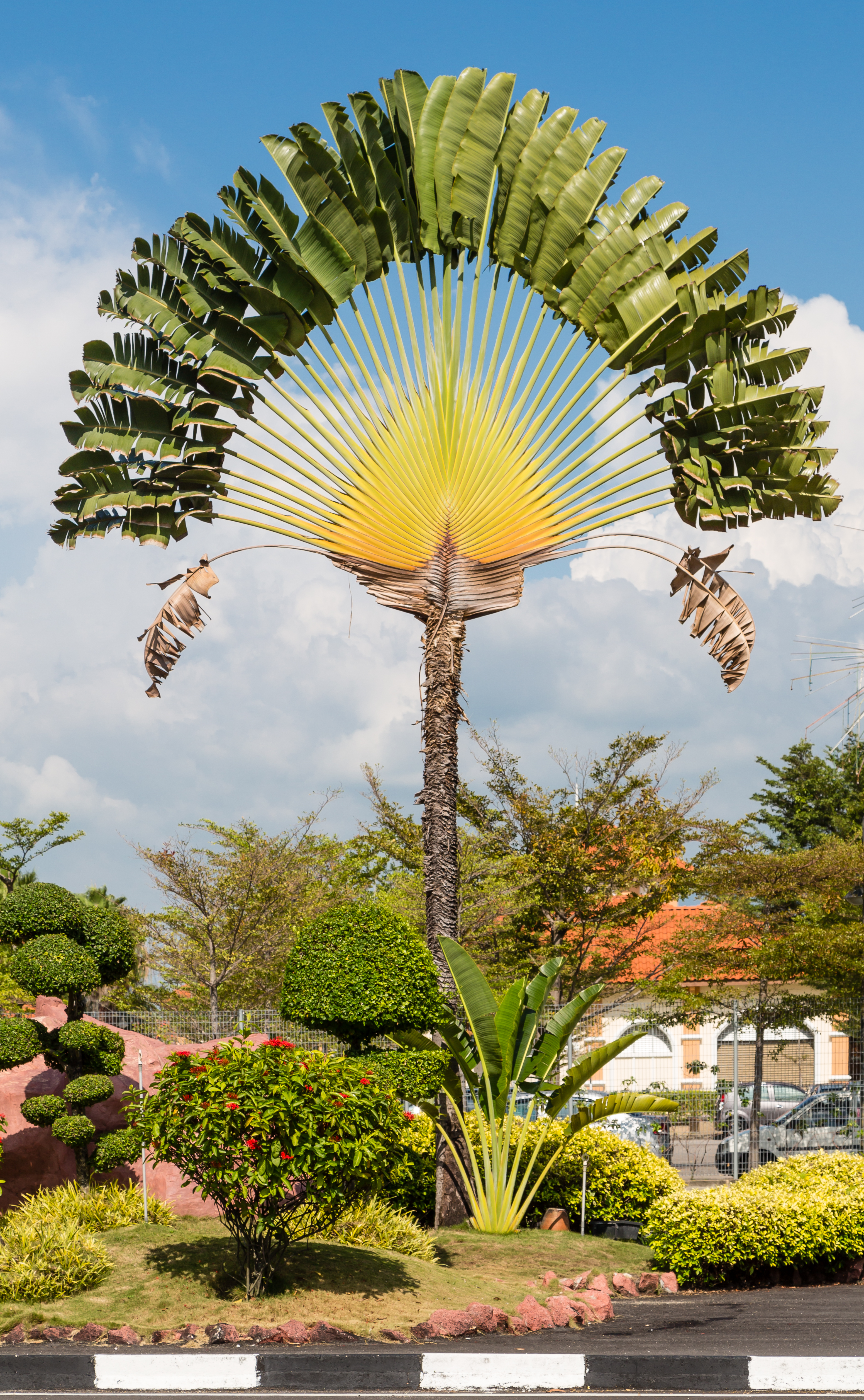 Penang, Malaysia: Ravenala madagascariensis or "Travellers Tree"